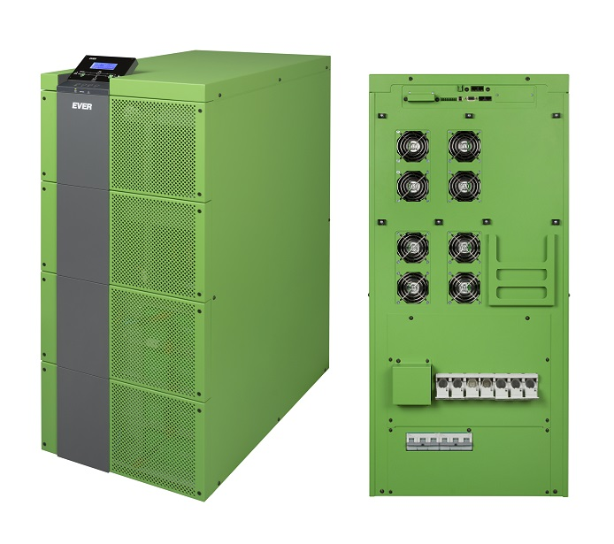 EVER ups powerline 33 green t (50-60)-1 by EVER Power Systems, Swarzedz, Poland